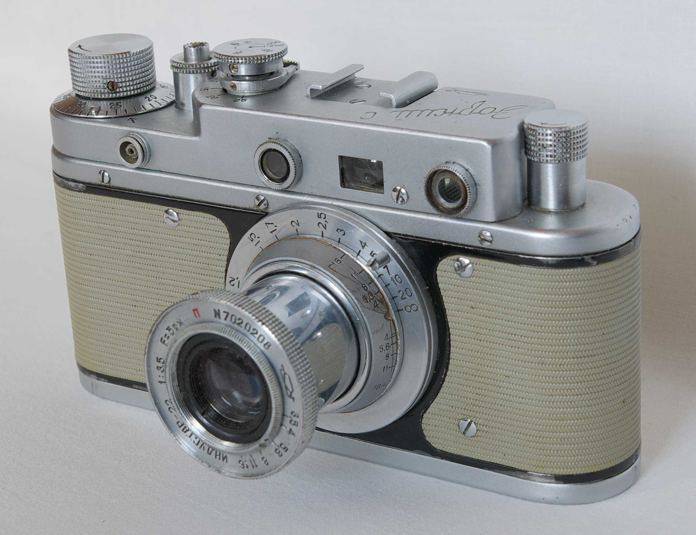 Zorki-S camera with Industar-22 lens. USSR, KMZ